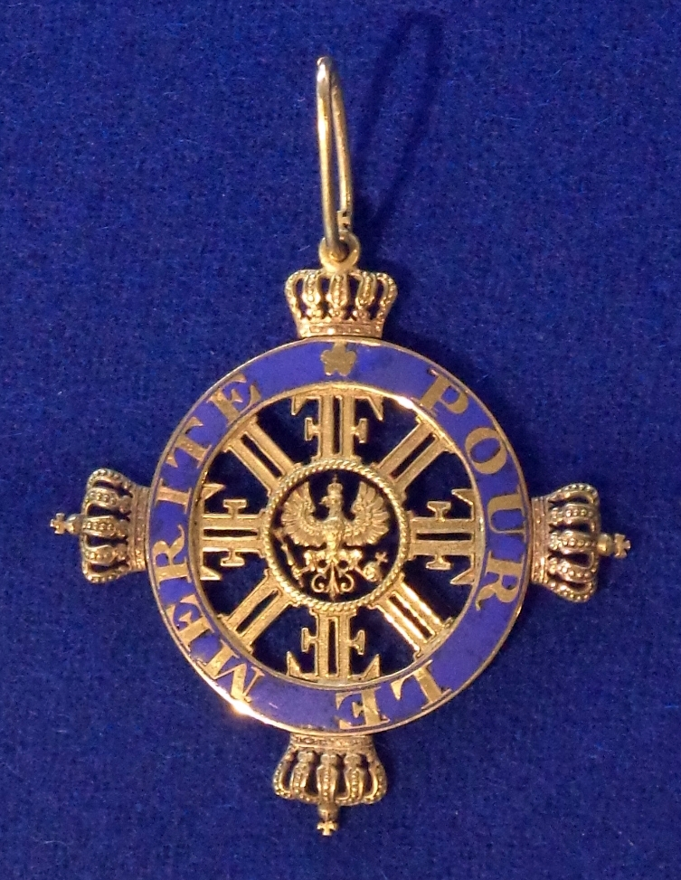 Pour le Mérite (Order For Merit), badge, civil division, c.1850. Kingdom of Prussia. The exhibition of the Tallinn Museum of Orders of Knighthood, Estonia.